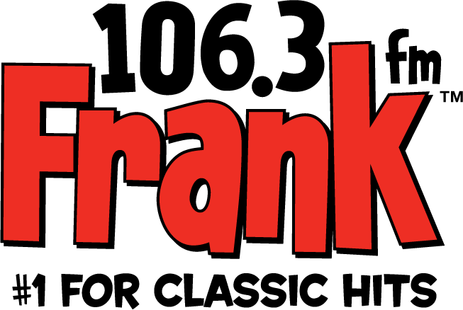 The Logo of WFNQ as of March 17, 2005.